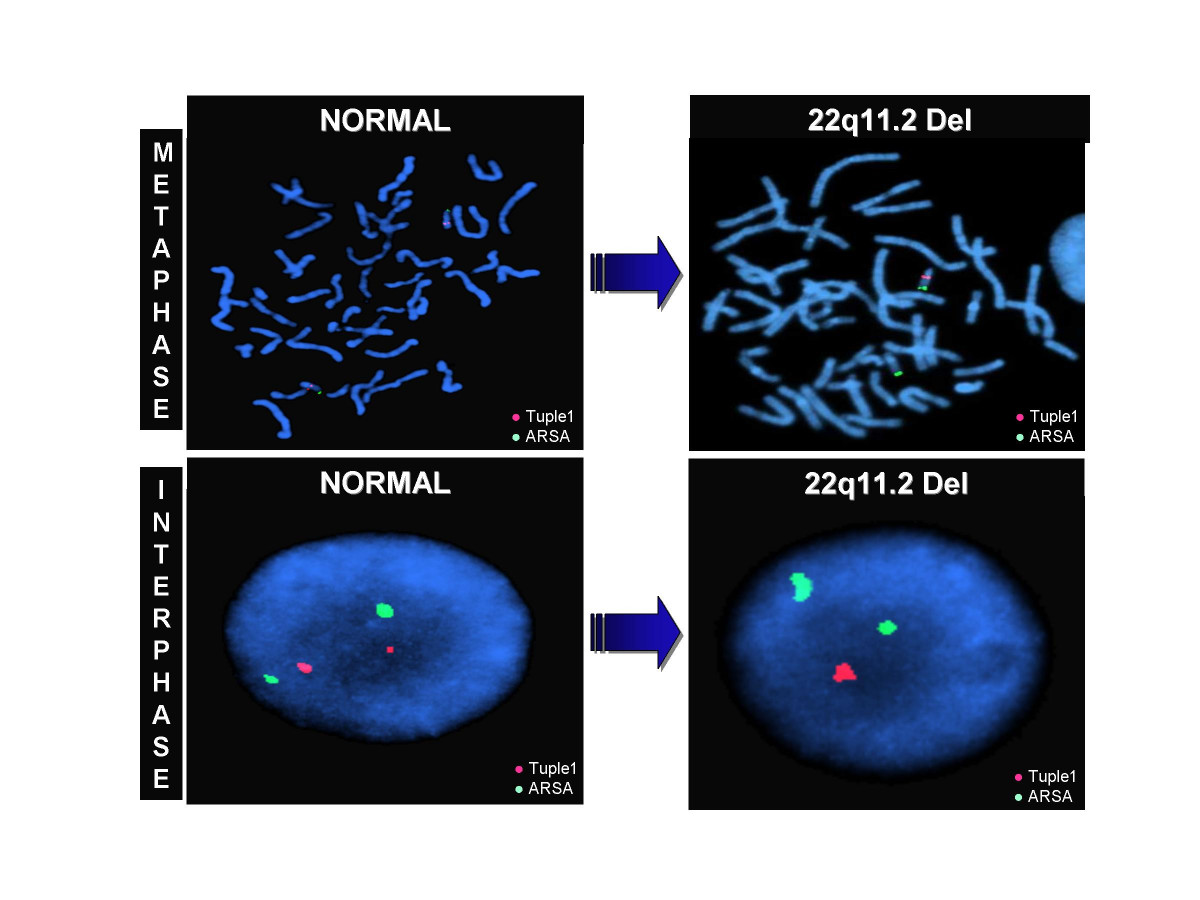 Figure 2. Result of FISH analysis using LSI probe (TUPLE 1) from DiGeorge/velocardiofacial syndrome critical region. TUPLE 1 (HIRA) probe was labeled in Spectrum Orange and Arylsulfatase A (ARSA) in SpectrumGreen as control. Absence of the orange signal indicates deletion of the TUPLE 1 locus at 22q11.2. Tonelli et al. Journal of Medical Case Reports 2007 1:167